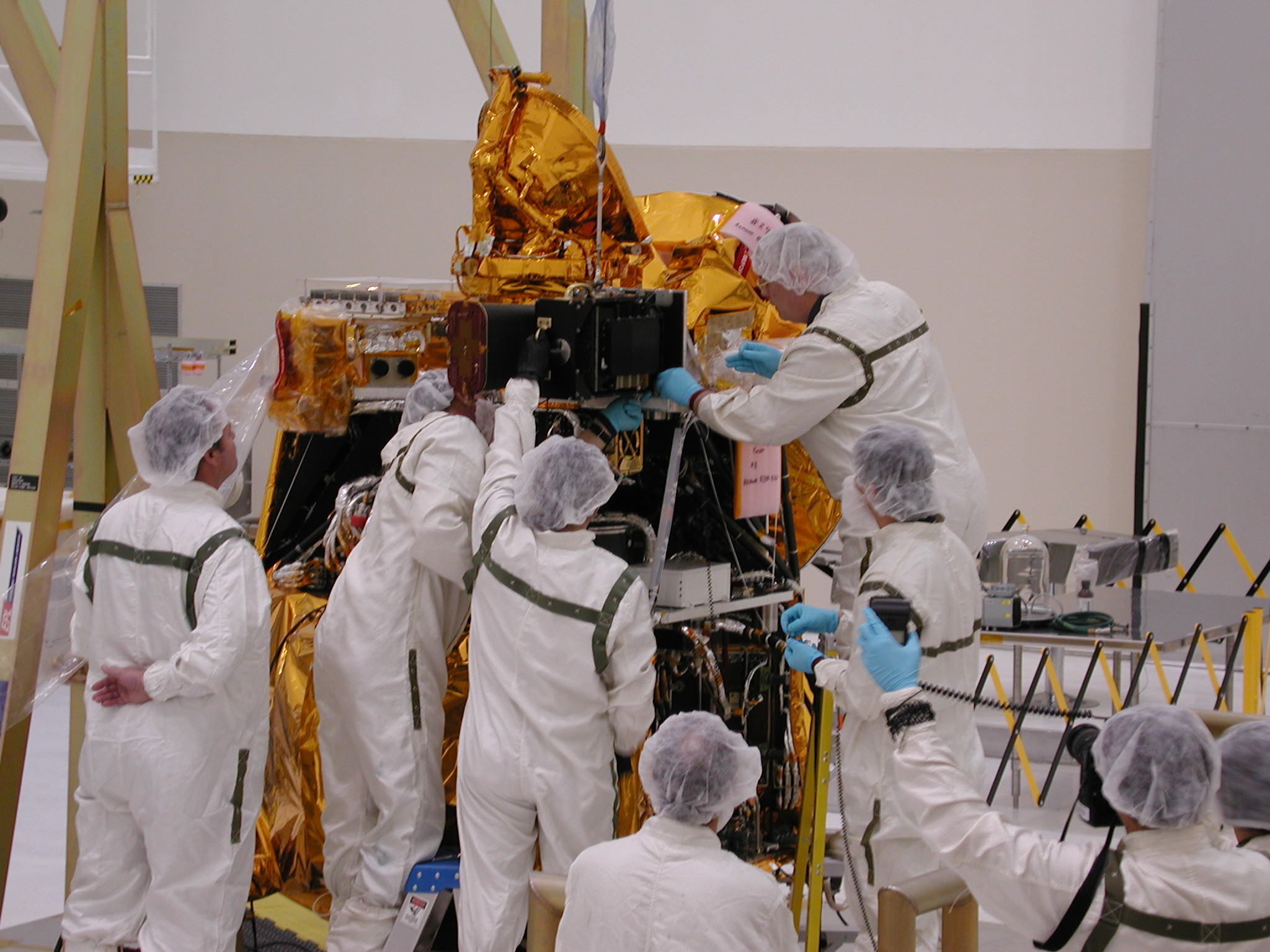 2001 Mars Odyssey during assembly